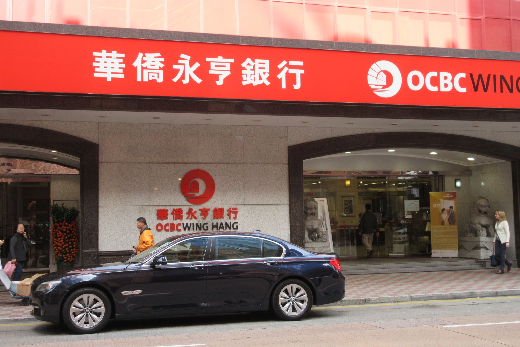 HK SW 上環 Sheung Wan 皇后大道 Queen's Road 華僑永亨銀行 OCBC Wing Hang Bank Building shop in Feb 2017